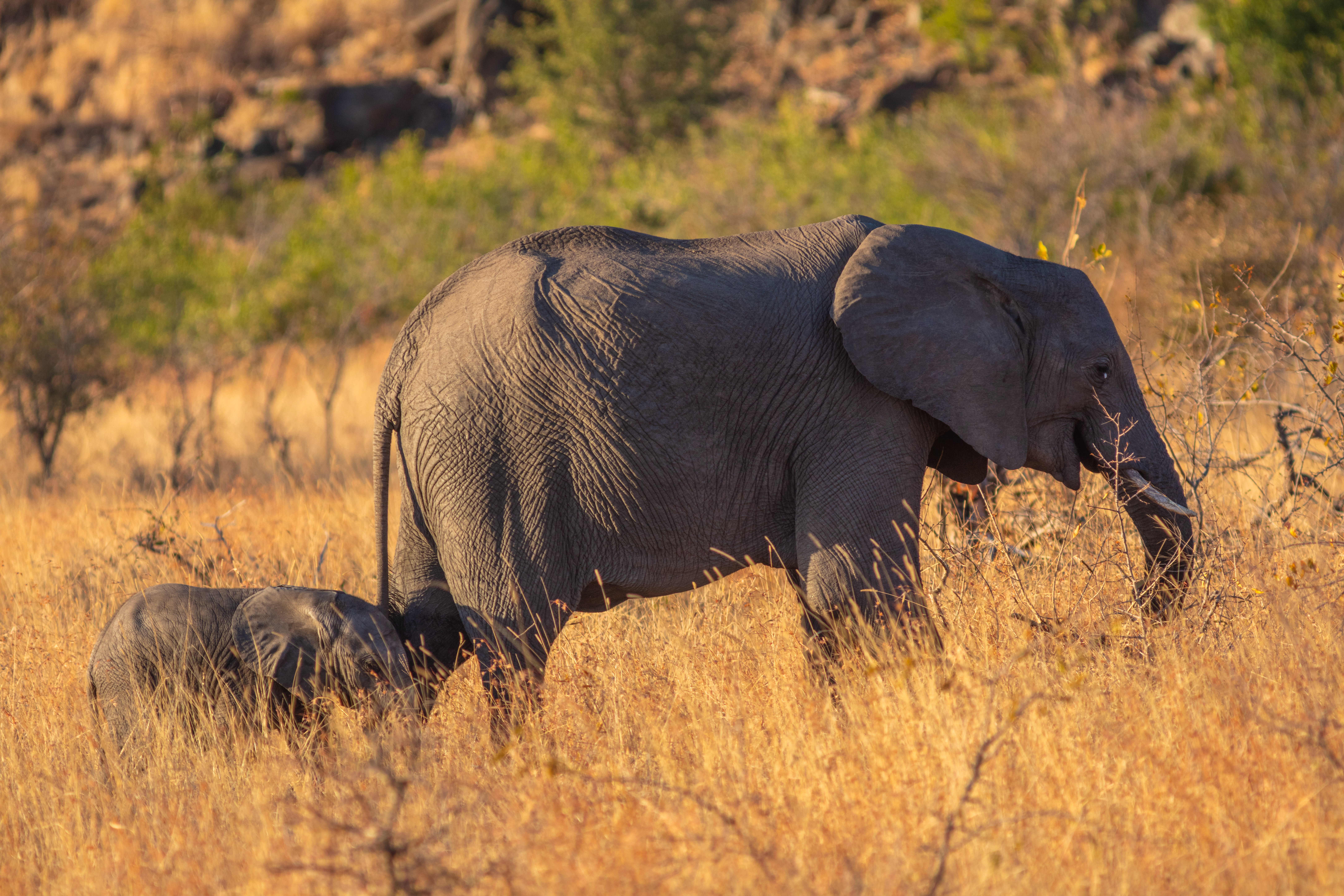 African bush elephants (Loxodonta africana), Kruger National Park, South Africa